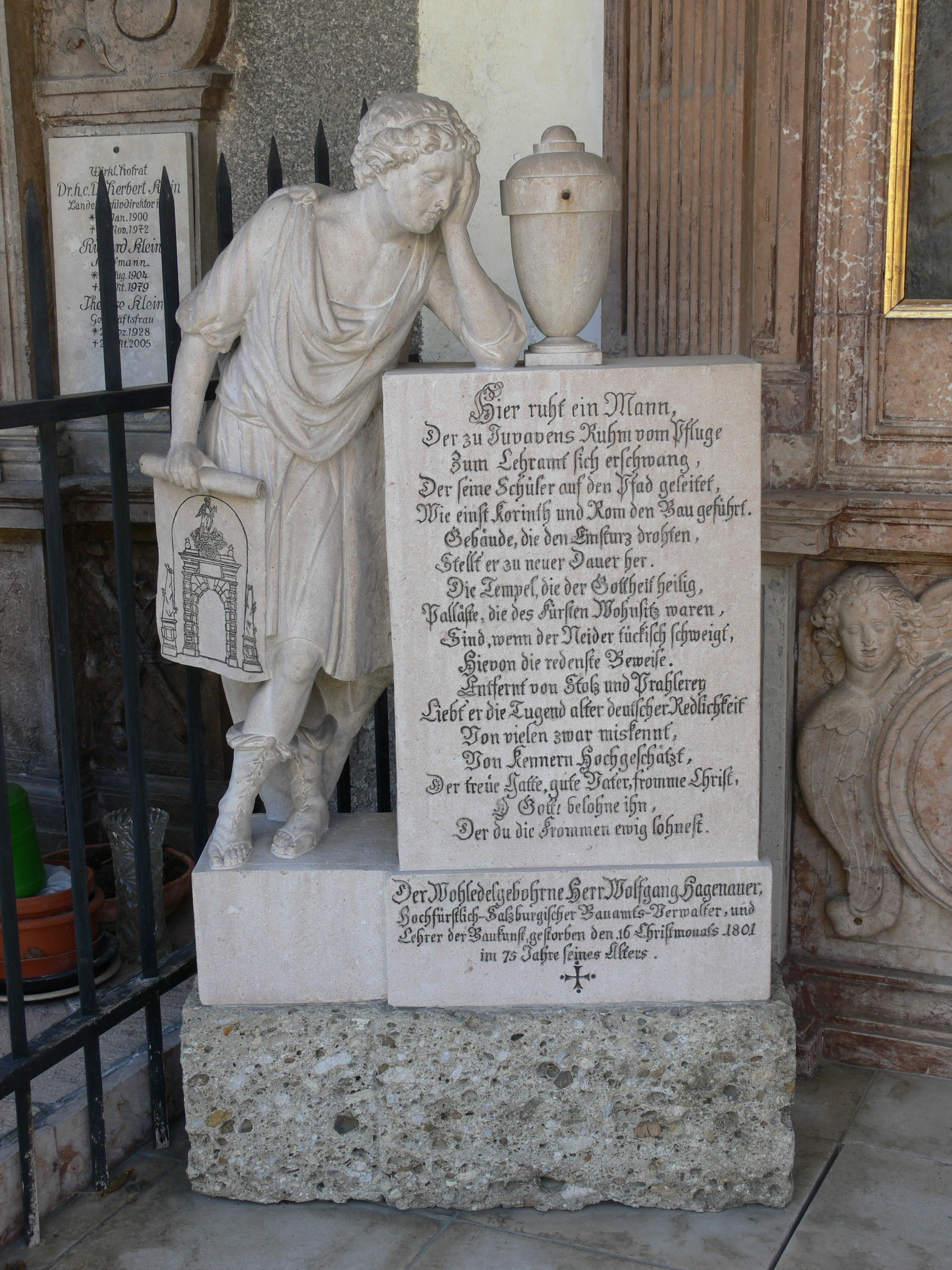 Crypt 52 (Petersfriedhof Salzburg): originally used as burial place by the Hagenauer family, now used as burial place for priests from the Archdiocese of Salzburg. Among those interred here are the architects Wolfgang Hagenauer (1726–1801) and Johann Georg Hagenauer (1748–1835) as well as Dr. Franz Wasner (1905–1992) who acted as priest to the Trapp Family ("The Sound of Music") and arranged some 150 of their songs. Crypt 52 must not be confused with Crypts 15 and 16, which were also owned by the Hagenauer family.